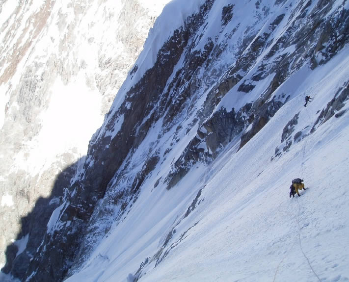 Traverse of first ledge of Kunyang Chhish East during a Canadian/Polish attempt to climb the mountain.